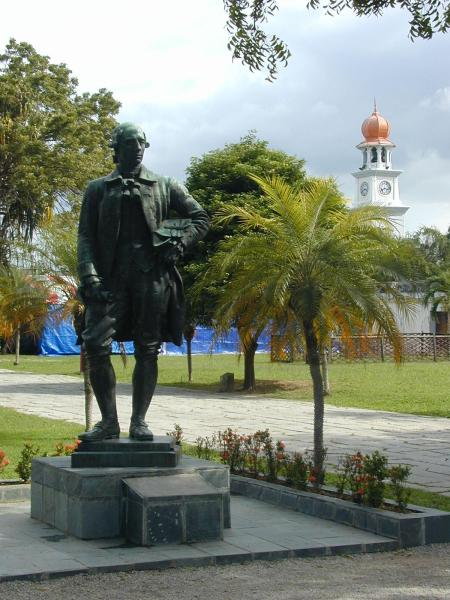 Statue of Francis Light, Georgetown, Malaysia.